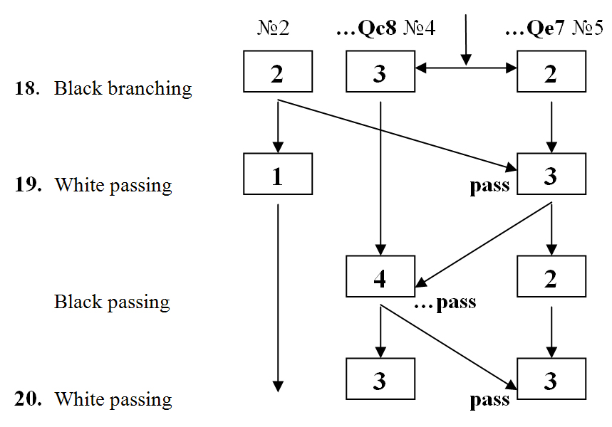 SCHEME 5. Chess Passing in Business chess.